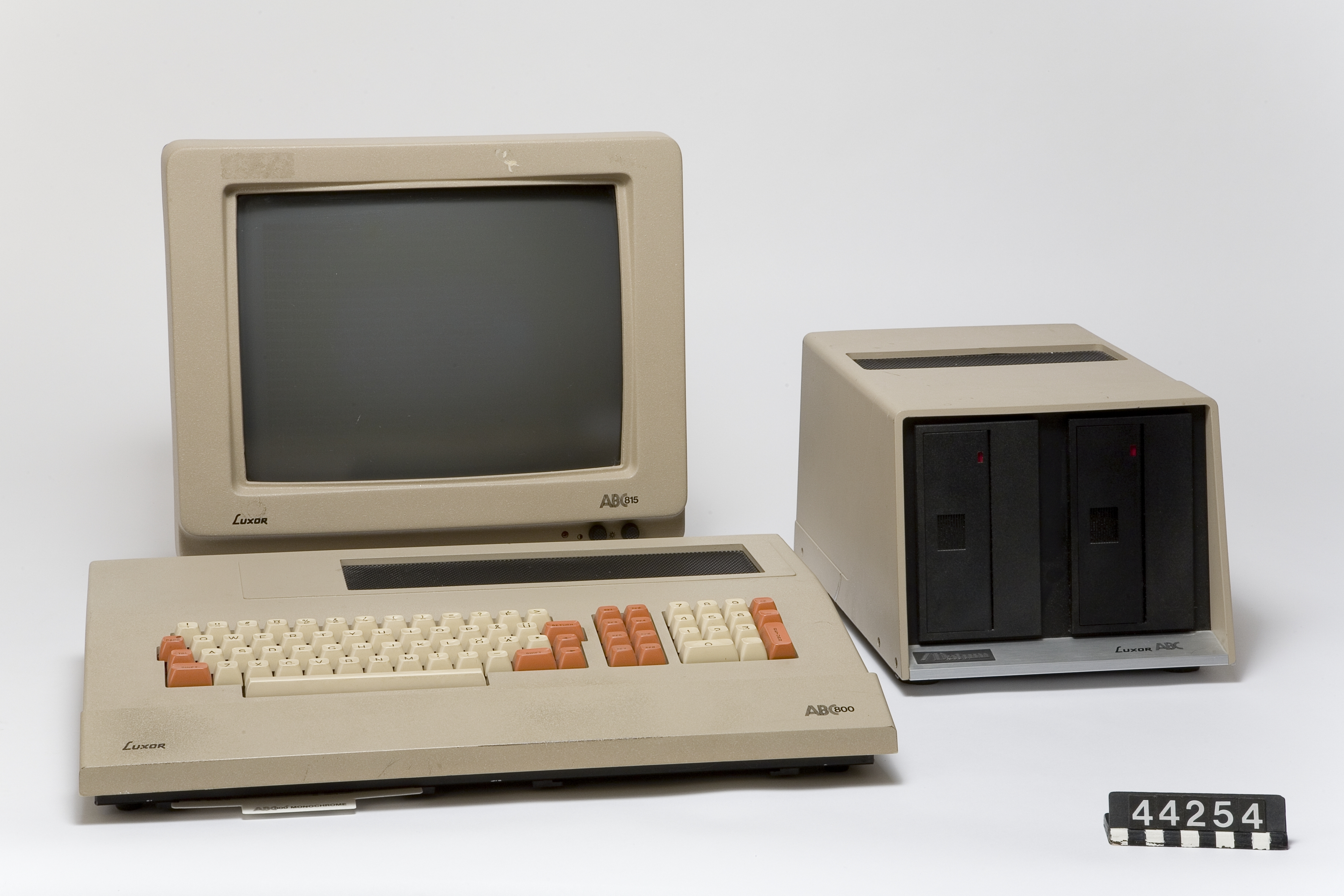 This is the Luxor ABC 800 a Swedish personal computer introduced in 1981.